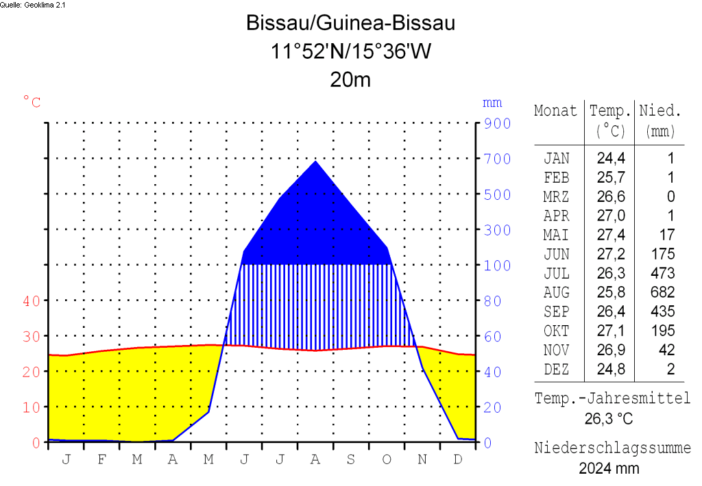 climate chart in the format by Walter and Lieth, metric, °Celsisus and millimeters, made with Geoklima 2.1